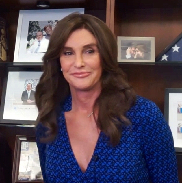 United States Ambassador to the United Nations, Samantha Power interviews Caitlyn Jenner about LGBT rights for Human Rights Day, 10 December 2015 Here's what Ambassador Power said about it on Facebook: Today is International Human Rights Day. At the United Nations, we’re working to integrate LGBT rights into every discussion on human rights, but there is still so much more we can do so that everyone has the freedom to live as they are without fear. It was good to talk to Caitlyn Jenner recently about the important work we can do at home, at the UN, and internationally. Around the world - and here in the US - transgender people face bullying, abuse, and even fatal violence simply for who they are. The threat is all too real for too many: from 2008-2014, over 1,600 transgender people were killed worldwide. LINK.